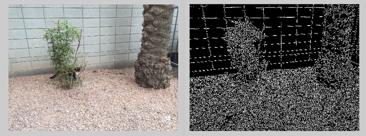 Edge Detection Example